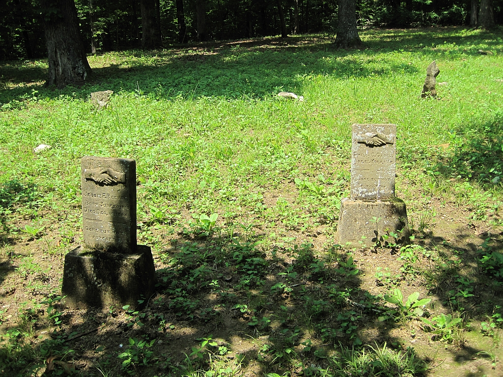 Phillips-Reeve Cemetery, Old Davidsonville State Park, Pocahontas, Arkansas.